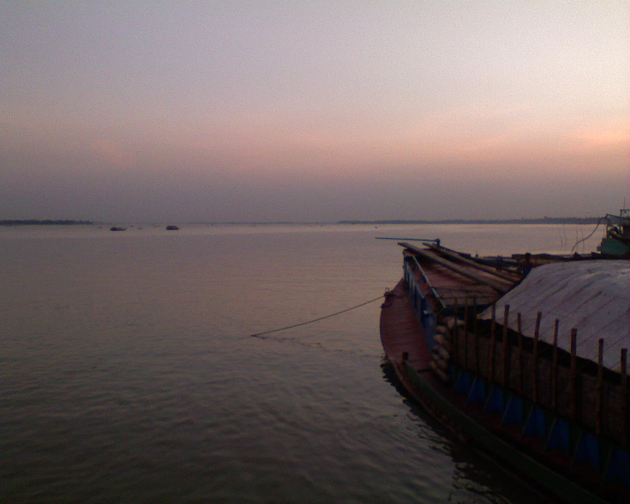 A boat at the launch ghat of Narsingdi's Meghna River